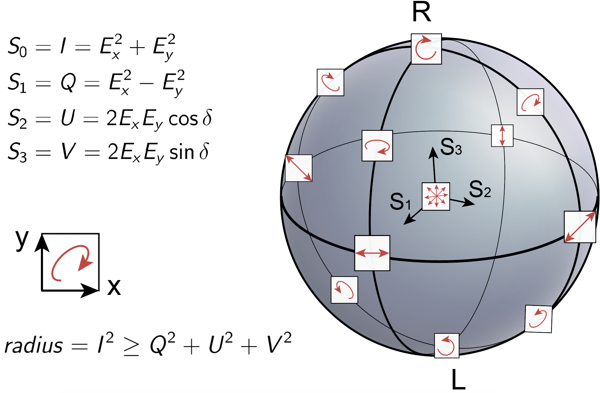 Poincare sphere and stokes parameters